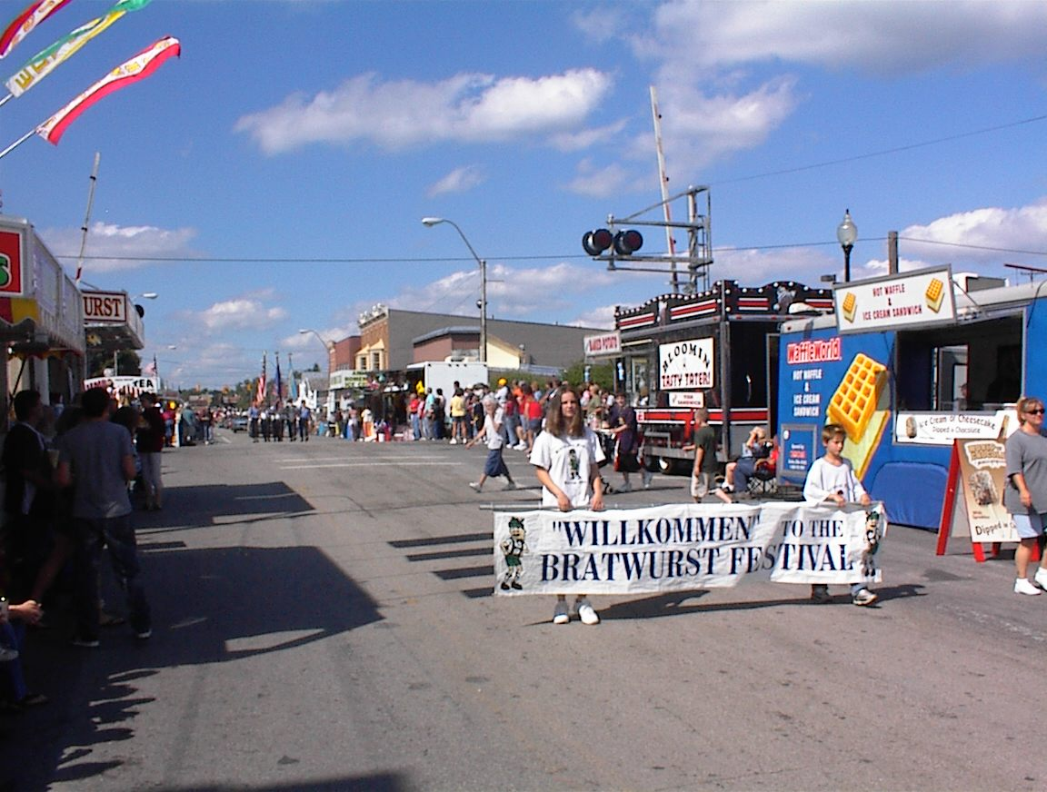 Picture I made at the 2004 Bratwurst Festival in Bucyrus, Ohio Mark @ DailyNetworks talk 17:13, 5 June 2007 (UTC)